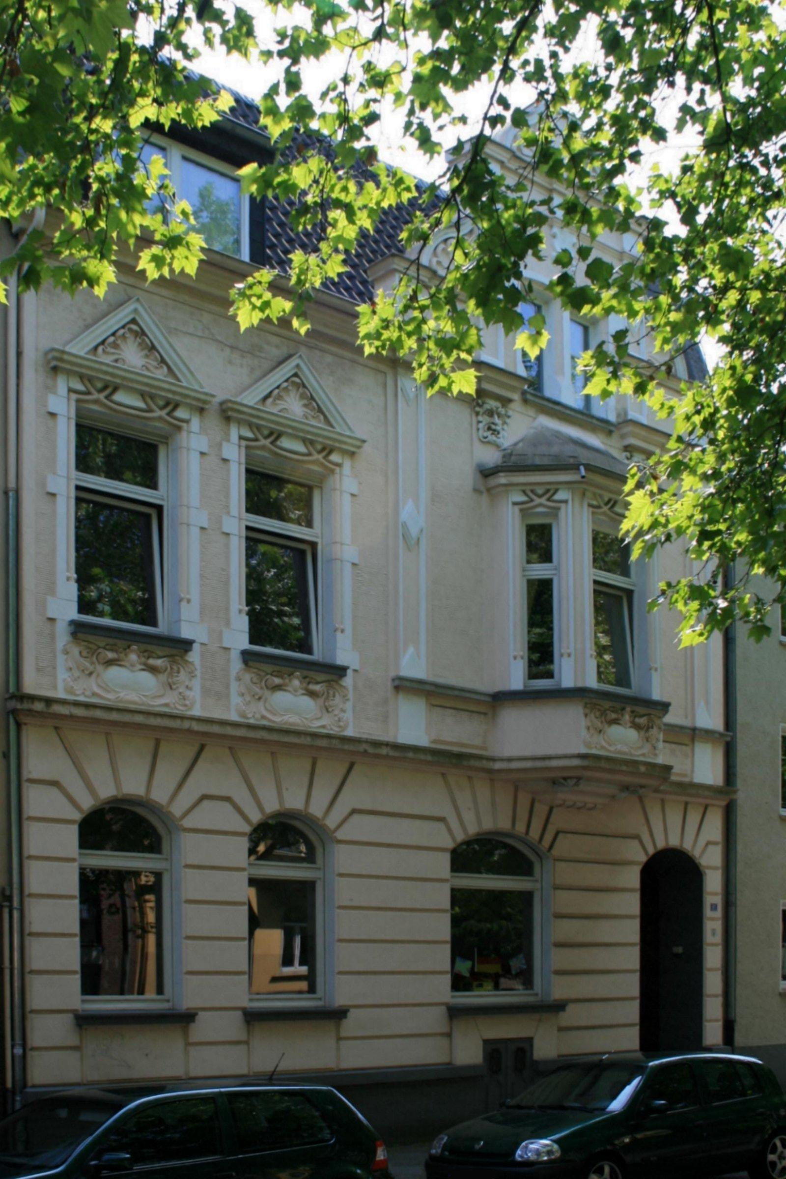 Cultural heritage monument No. R 045 in Mönchengladbach